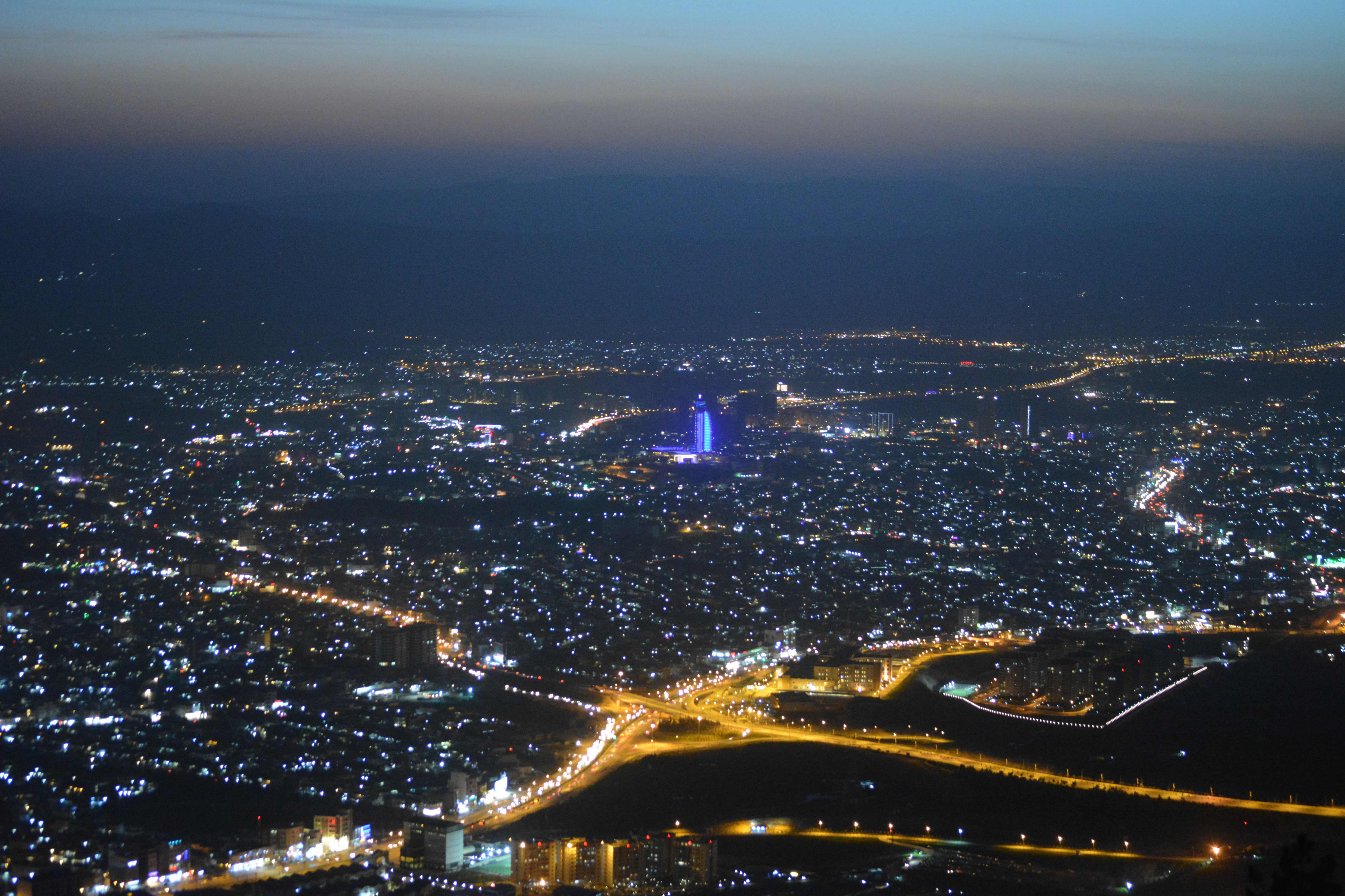 A Night View of the City of Sulaymaniyah at the Top of Azmar Mountain in Iraqi Kurdistan.